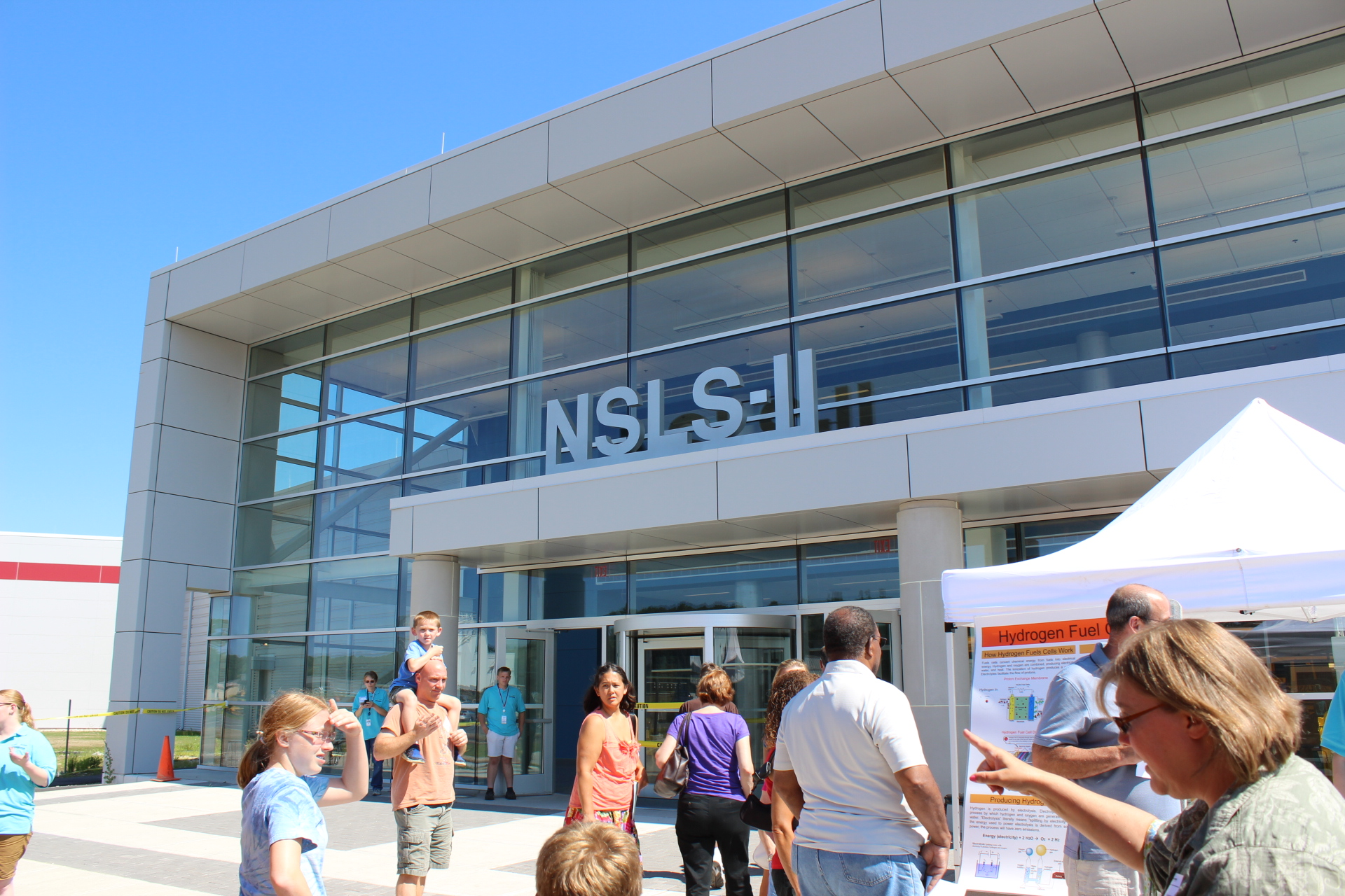 Exterior of NSLS-II, taken Sunday, 22 July 2012, during Brookhaven National Laboratory "Summer Sundays" public tour.